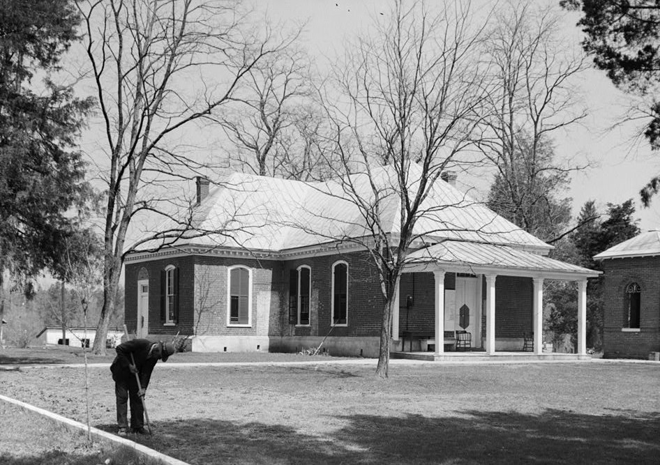 Charles City County Courthouse, State Route 5, Charles City (Charles City County, Virginia) cropped This file comes from the Historic American Buildings Survey (HABS), Historic American Engineering Record (HAER) or Historic American Landscapes Survey (HALS). These are programs of the National Park Service established for the purpose of documenting historic places. Records consist of measured drawings, archival photographs, and written reports. When reusing please credit: Library of Congress, Prints & Photographs Division, VA,19-CHARC,1-1 This tag does not indicate the copyright status of the attached work. A normal copyright tag is still required. See Commons:Licensing for more information. English | +/− This work is in the public domain in the United States because it is a work prepared by an officer or employee of the United States Government as part of that person’s official duties under the terms of Title 17, Chapter 1, Section 105 of the US Code. See Copyright. Note: This only applies to original works of the Federal Government and not to the work of any individual U.S. state, territory, commonwealth, county, municipality, or any other subdivision. This template also does not apply to postage stamp designs published by the United States Postal Service since 1978. (See § 313.6(C)(1) of Compendium of U.S. Copyright Office Practices). It also does not apply to certain US coins; see The US Mint Terms of Use. This file has been identified as being free of known restrictions under copyright law, including all related and neighboring rights. Object location37° 20′ 29″ N, 77° 04′ 21″ W